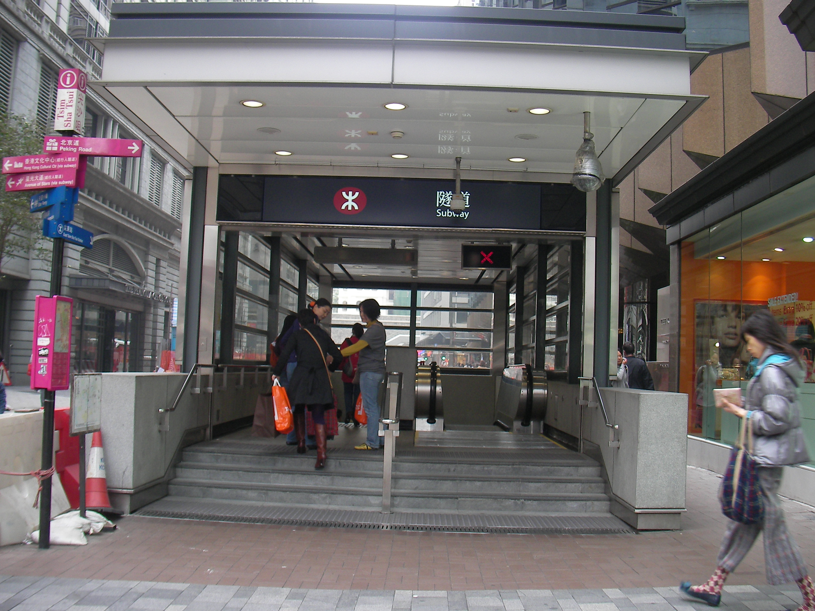 MTR East Tsim Sha Tsui Station Middle Road Subway Exit L3